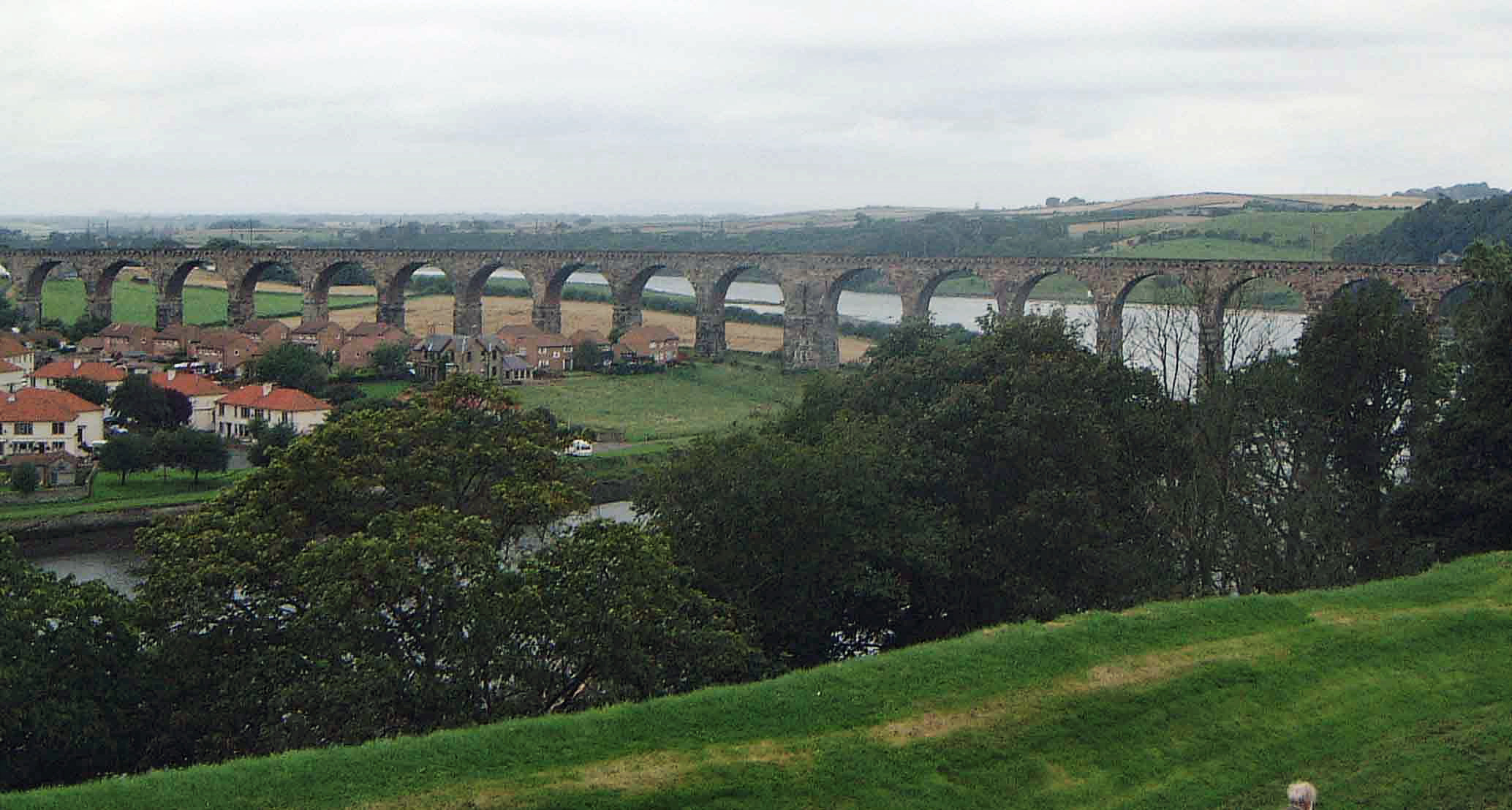 Personal photograph taken by Mick Knapton on 23rd August 2004.